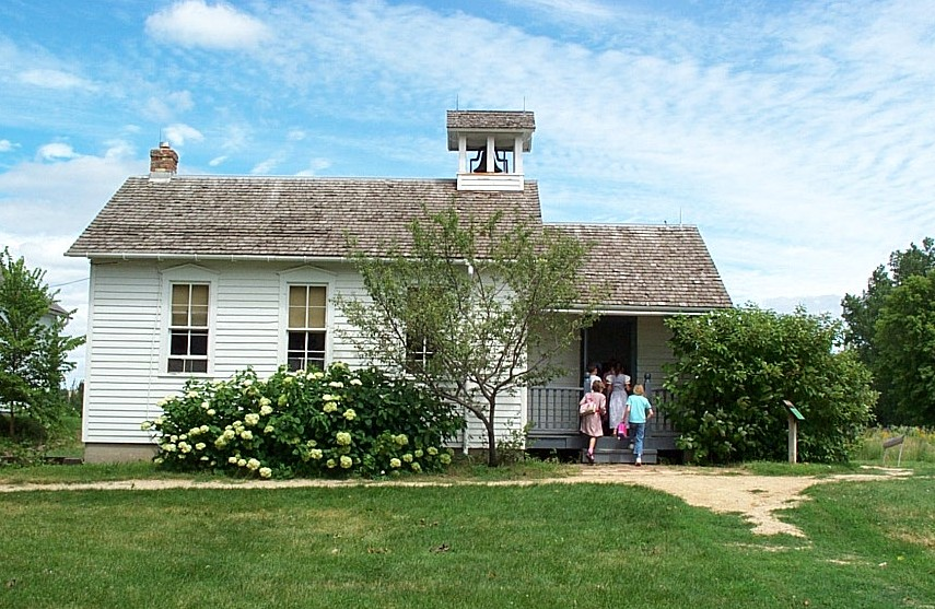 This photo is of the schoolhouse at the Gibbs Museum of Pioneer and Dakotah Life in Falcon Heights, Minnesota. The schoolhouse is origianl 19th Century and was moved from Milan, Minnesota to the present site in 1966.